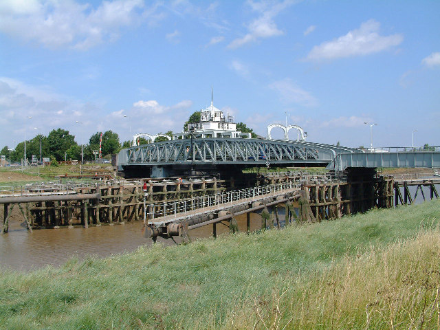 Cross Keys Bridge. Cross Keys swing bridge spanning the river Nene in Lincolnshire.